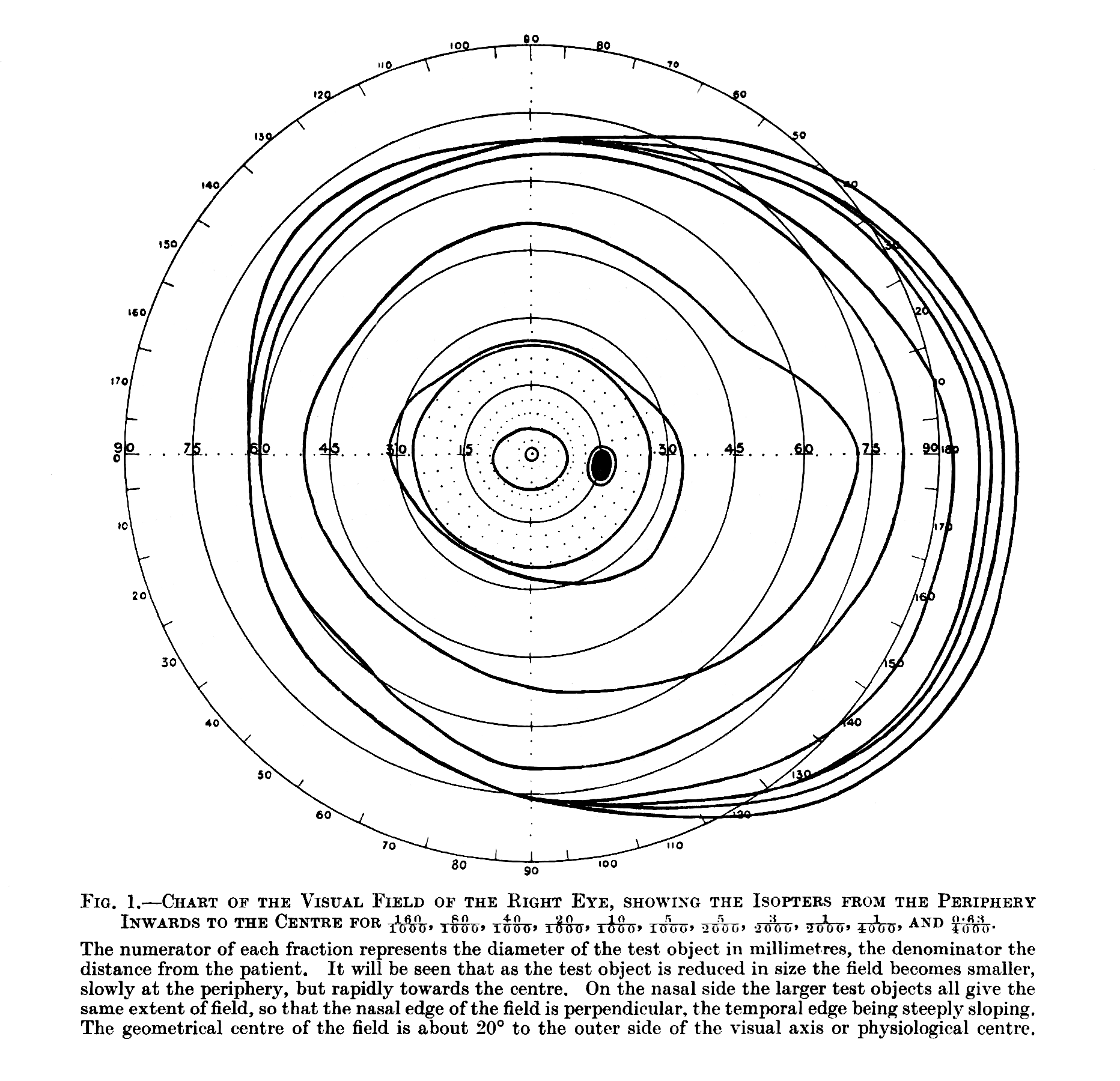 The classical image on the shape and size of the visual field by Harry Moss Traquair in his book 1938 “Clinical Perimetry”, Chpt. 1, p 4. Modified to show the essentials. It shows that the visual field is considerably larger on the temporal side than the often quoted 90° extent.